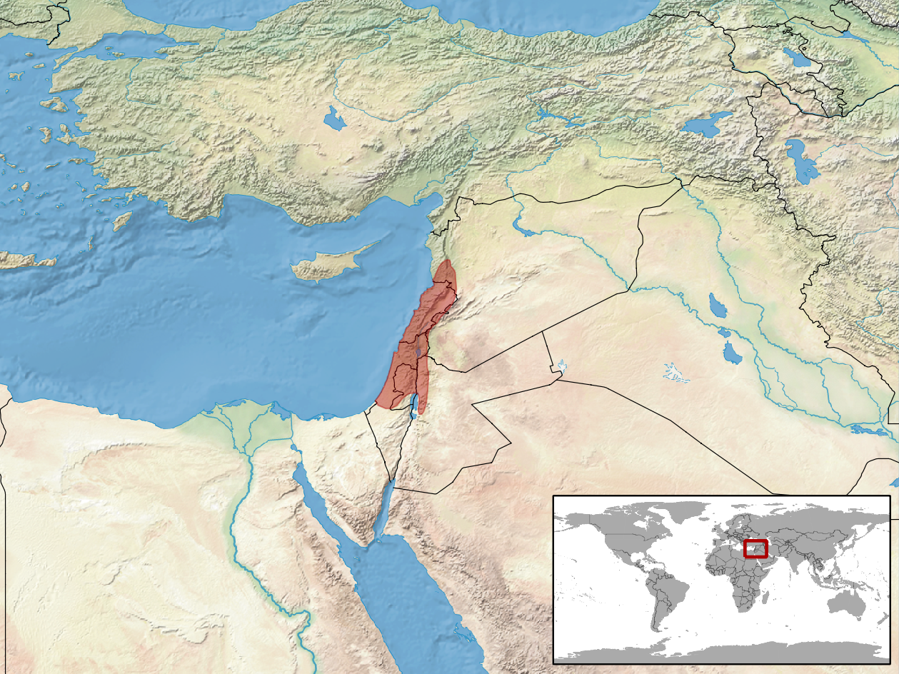 geographic distribution of Daboia palaestinae (Native: Israel; Jordan; Lebanon; Palestinian Territory, Occupied; Syrian Arab Republic)